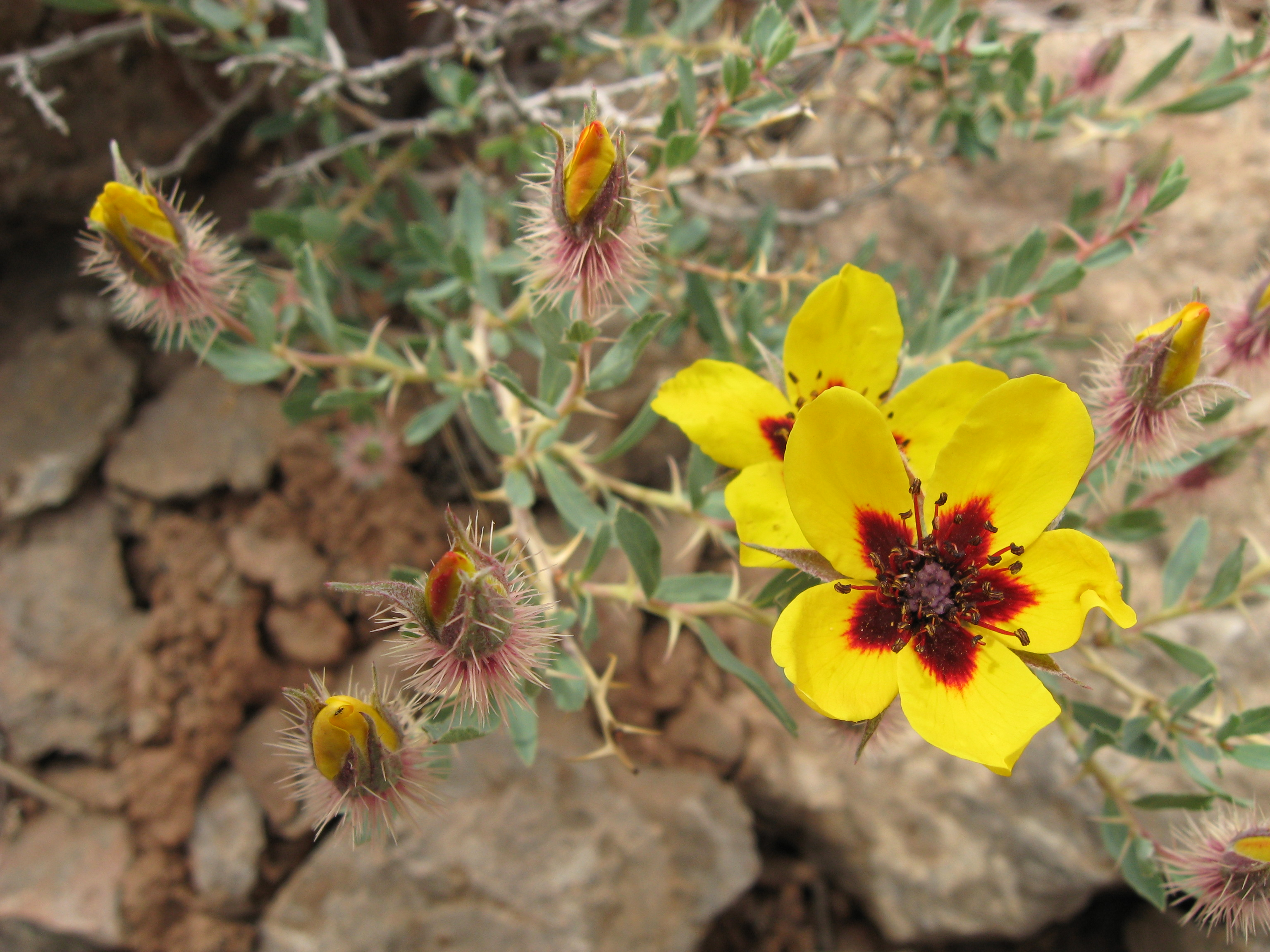 Flower in Iran. (Rosa persica)